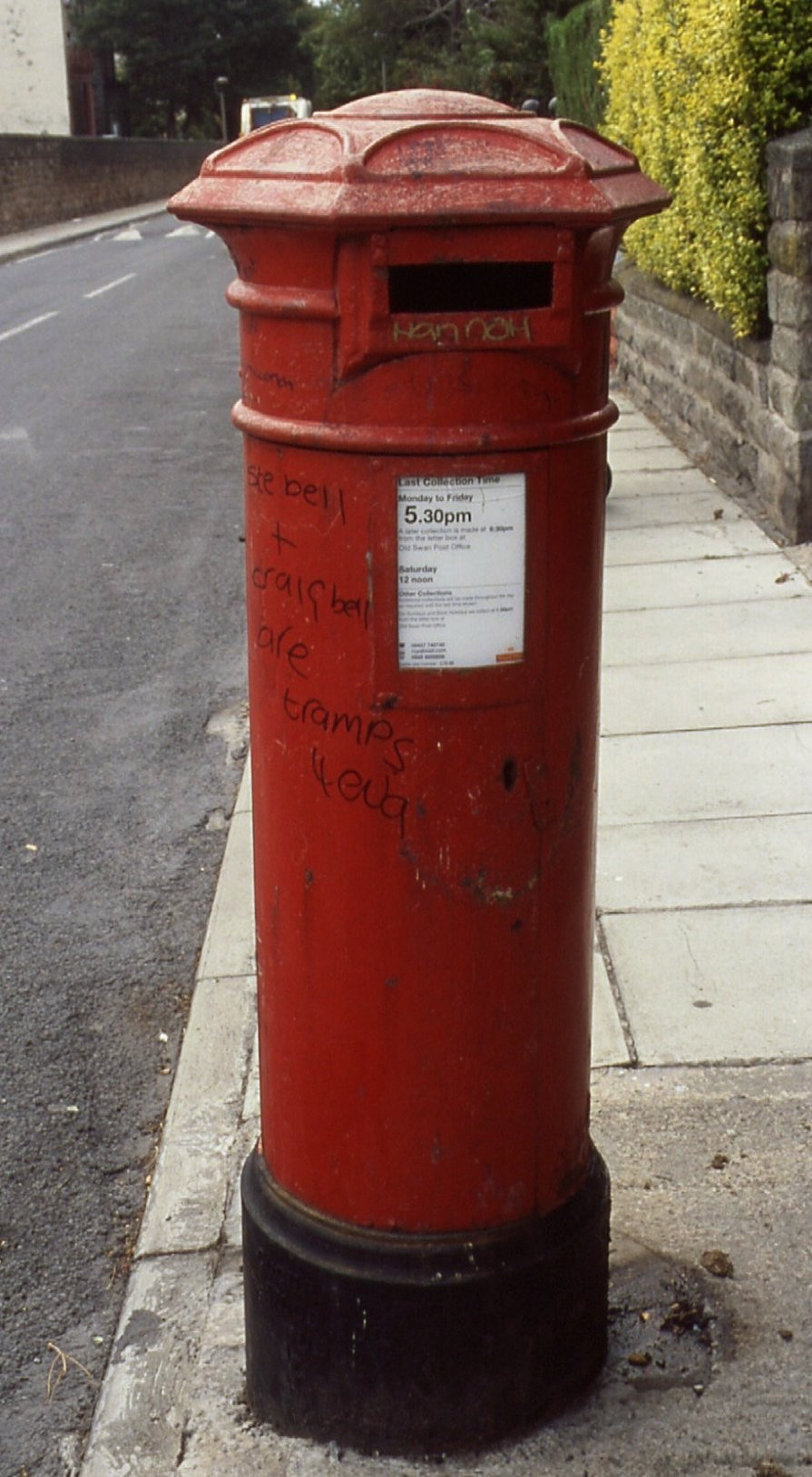 Ist National Standard pillar box at Sandown Rd Liverpool photographed 2nd October 2003 by Kitmaster 18:21, 20 March 2007 (UTC) on Coolpix 885. This box was destroyed by a firework in 2005